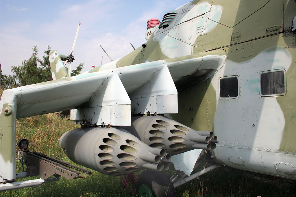 Mil Mi-24 Hind D at a museum in Warzaw, Poland